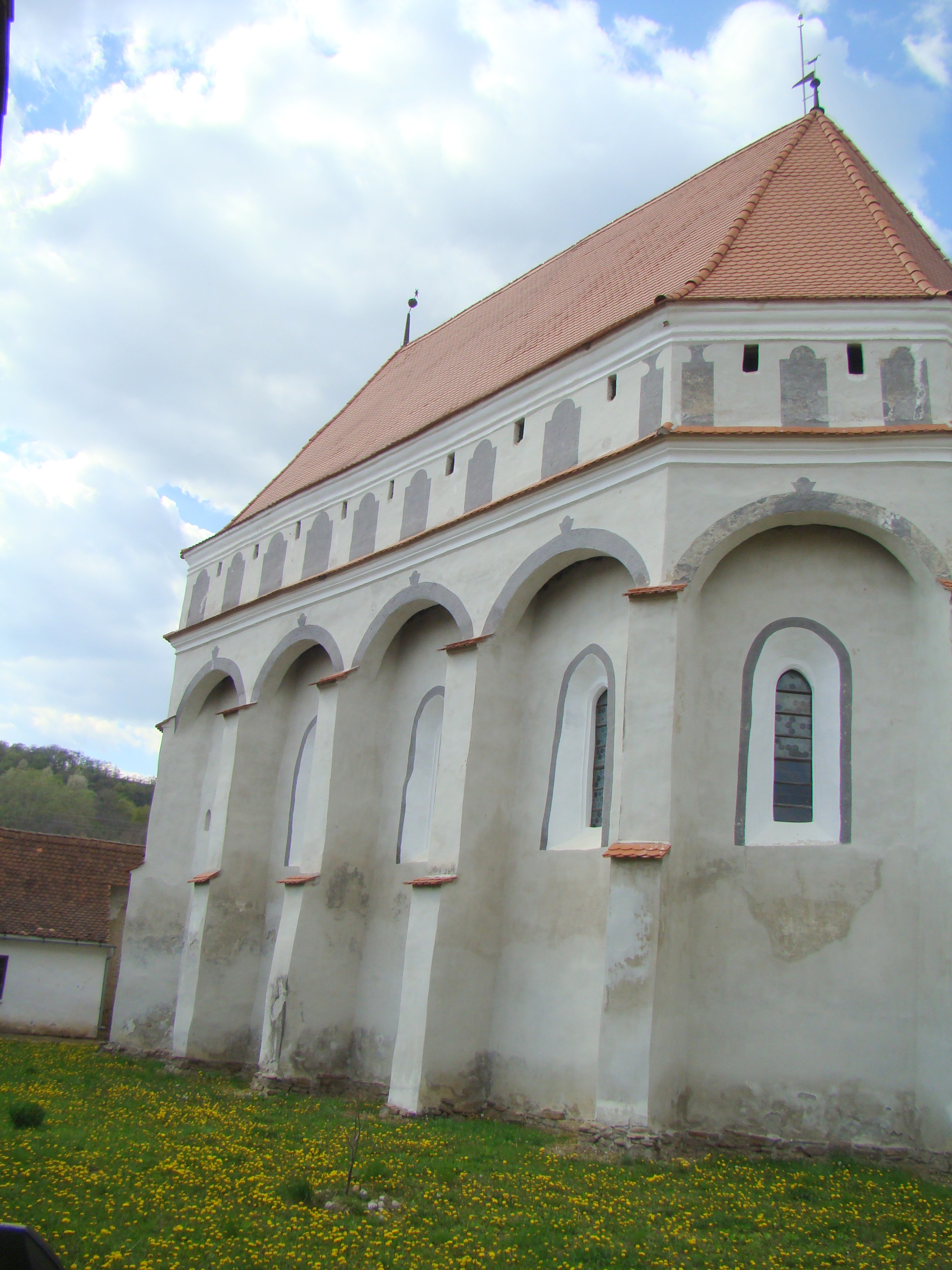 Lutheran church in Cloașterf, Mureș county, Romania